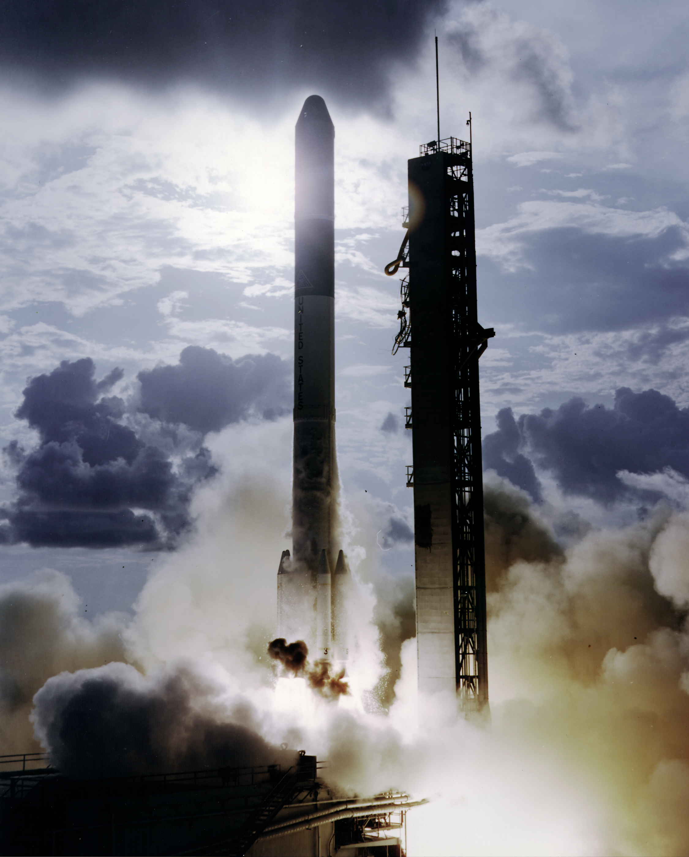 NASA successfully launched more than 200 Earth-orbiting satellites, including Goddard's eighth Orbiting Solar Observatory aboard this Delta rocket on June 21,1975, at Cape Canaveral, Florida. The satellite-the final in a series of spacecraft specifically designed to look at the Sun in high-energy wavelength bands that scientists cannot see on Earth-gathered data on energy transfer in the Sun's hot, gaseous atmosphere and its 11-year sunspot cycle. Sunspots are cooler regions that appear as dark patches in the visible surface of the Sun and are more plentiful every 11 years. Flares and other powerful solar events that sometimes wreak havoc with Earth's communications systems also are associated with heightened sunspot activity. In addition to looking at the Sun, the satellite investigated celestial sources of X-rays in the Milky Way and beyond. It carried eight experiments.